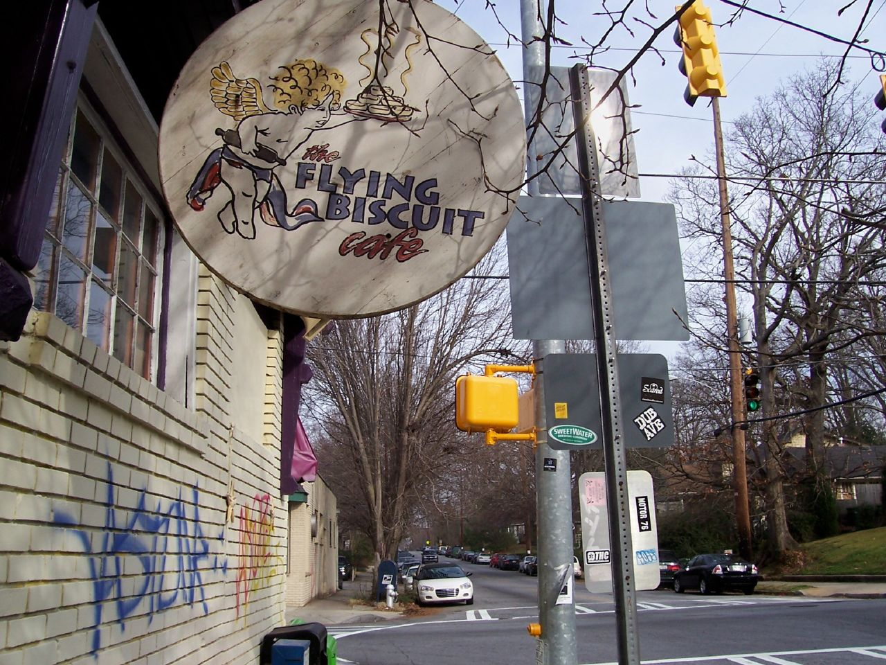 Flying Biscuit cafè in Candler Park - Atlanta, Georgia, USA